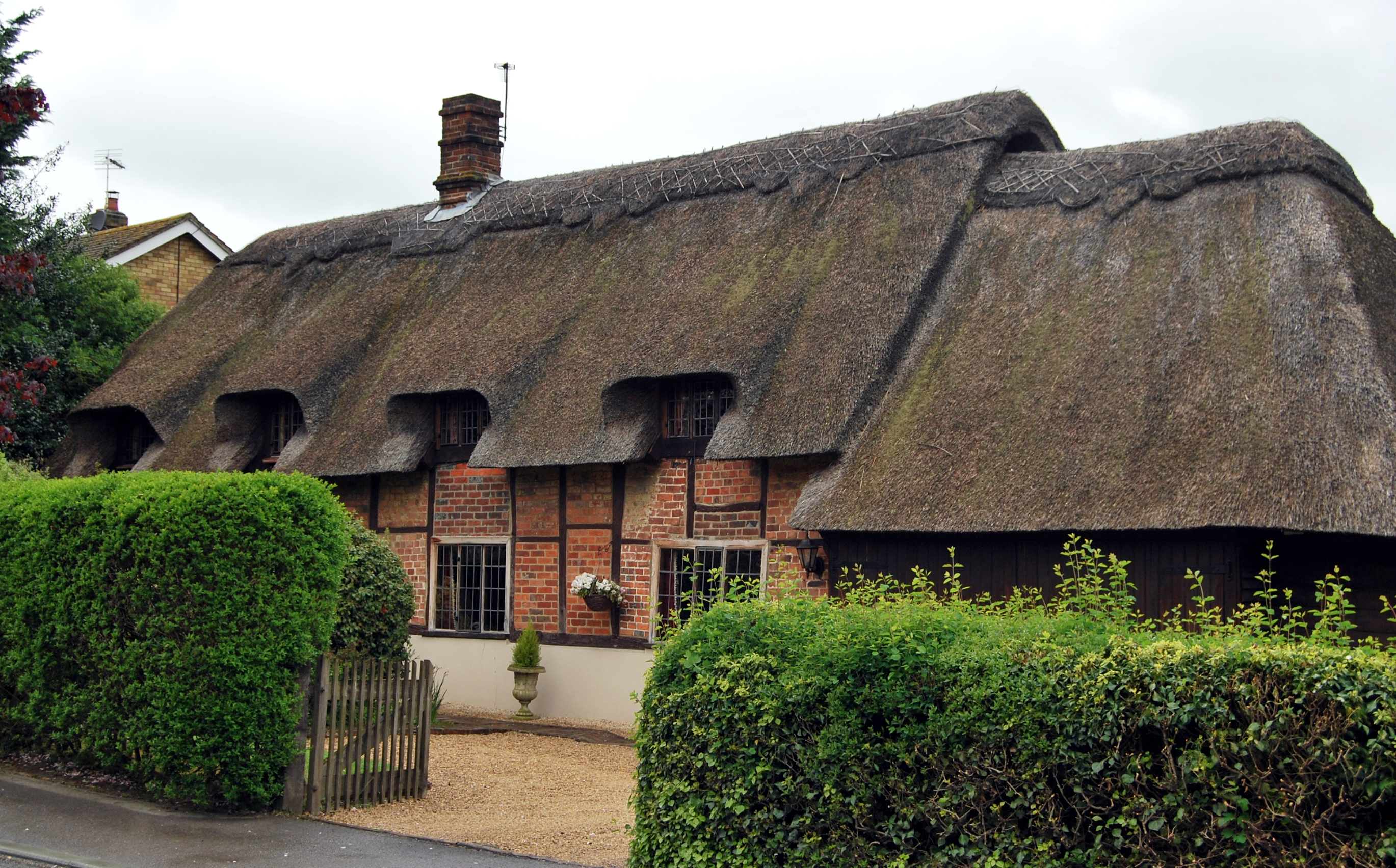 Chinnor, Oxfordshire: timber-framed cottage with brick nogging and thatched roof